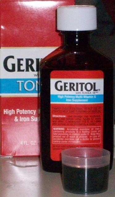 4 ounce modern bottle of Geritol brand tonic, a GlaxoSmithKline product. Product purchased at Crosbys pharmacy on N High Street in Columbus Ohio, USA. product is a deep brown, viscous liquid, with a mildly inky aroma, packaged in a plastic bottle inside a paper box, with a child resistant safety cap.